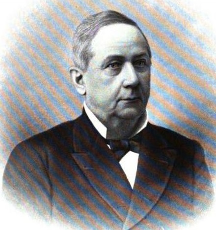 Samuel Knox (Missouri Congressman)